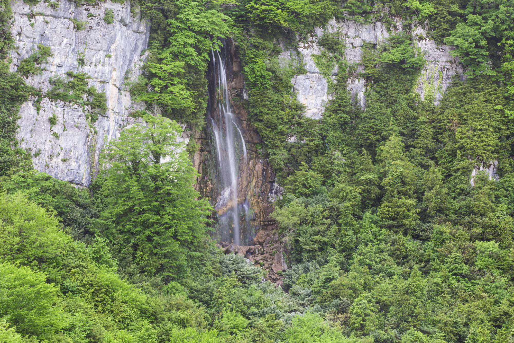 Mukhura Waterfall Attraction: The natural monument with a height of 60-70 m represents a waterfall at 882 m above sea level. It flows from the cave located on the slope of eastern exposure in the form of 3-step waterfall. There is one small and one big lake in the cave. There also flows a pristine river in the cave, which the locals refer to as "Tskalmechkheri" (shallow water). The banks of the waterfall is covered in mixed broadleaf forest. The waterfall creates an astounding landscape. The place is home to many endemic species, such as : Caucasian mole, and Rade, Volnukhin, and Caucasian water shrew. The place is home to 10 kinds of bats. How to get there: The nearest populated ara is village Mukhura of Tkibuli Municipality, which is connected to the natural monument with a 800 m long dirt road, whereas the distance from Tbilisi to Mukhura is 265 km of paved road. It takes 4 hours 30 minutes to get there by car. Kutaisi - Village Mukhura - 39 km. The road is paved and the length of the journey is 1 hour by car. Tkibuli - Village Mkhura - 5.2 km, 3 km concrete road and 2.2 km dirt road.